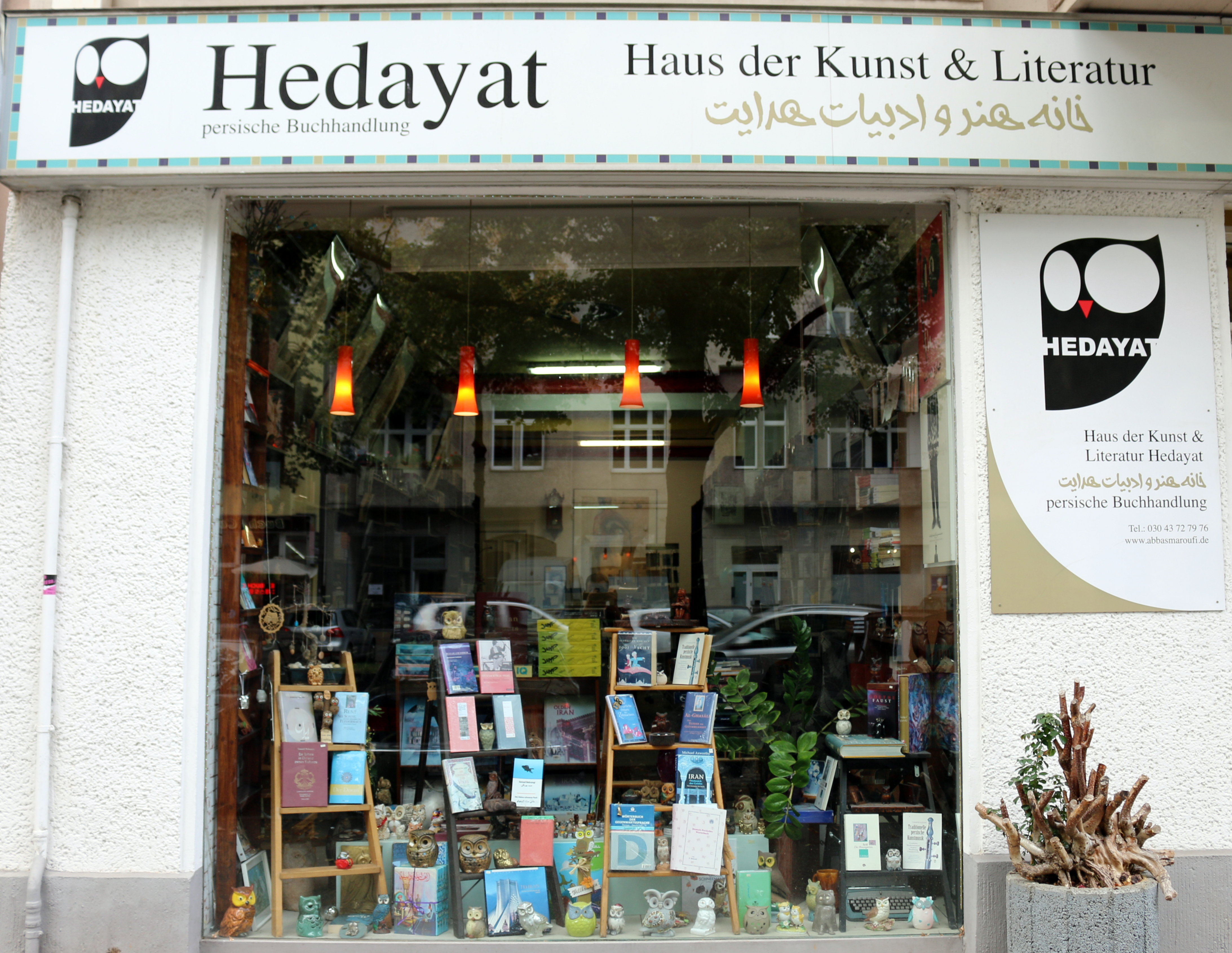 HEDAYAT persische buchhandlung - Berlin - Photo: Persian Dutch Network